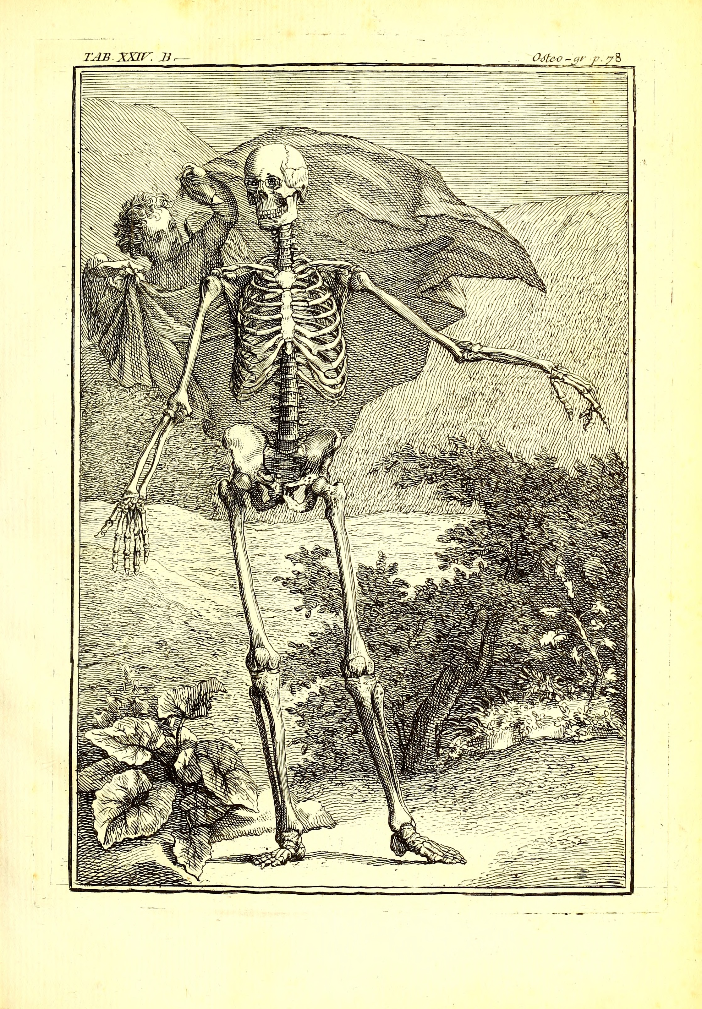 Title: Ostéo-graphie, ou Description des os de l'adulte, du foetus, &c. Precedée d'une introduction a l'etude des parties solides du corps humain Year: 1753 (1750s) Authors: Tarin, Pierre Hrdlicka, Ales, 1869-1943, former owner. DSI Subjects: Bones Human anatomy Publisher: Paris : Chez Briasson Text Appearing Before Image: ' Text Appearing After Image